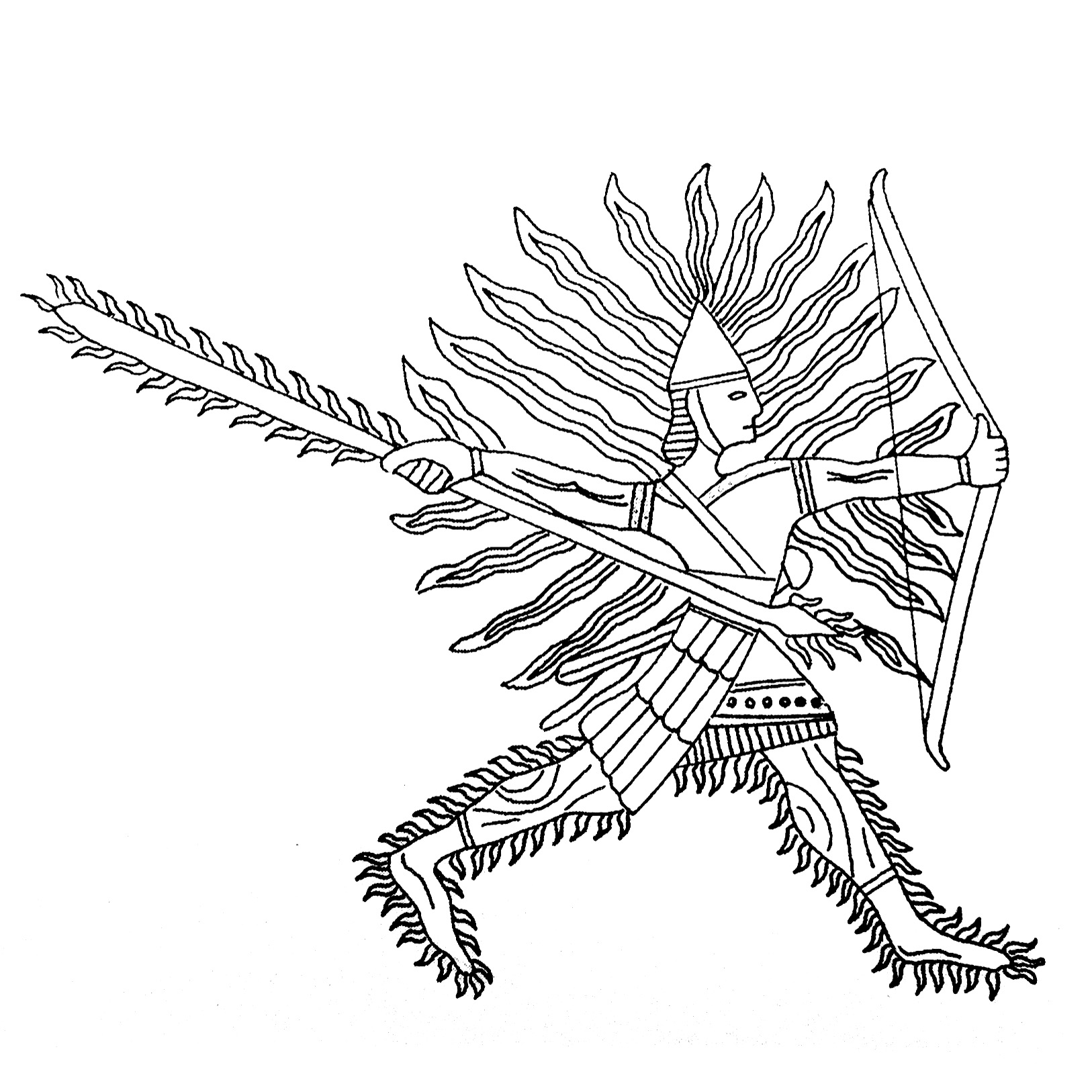 Urartian God from a shield discovered at Anzaf fortresses, Turkey